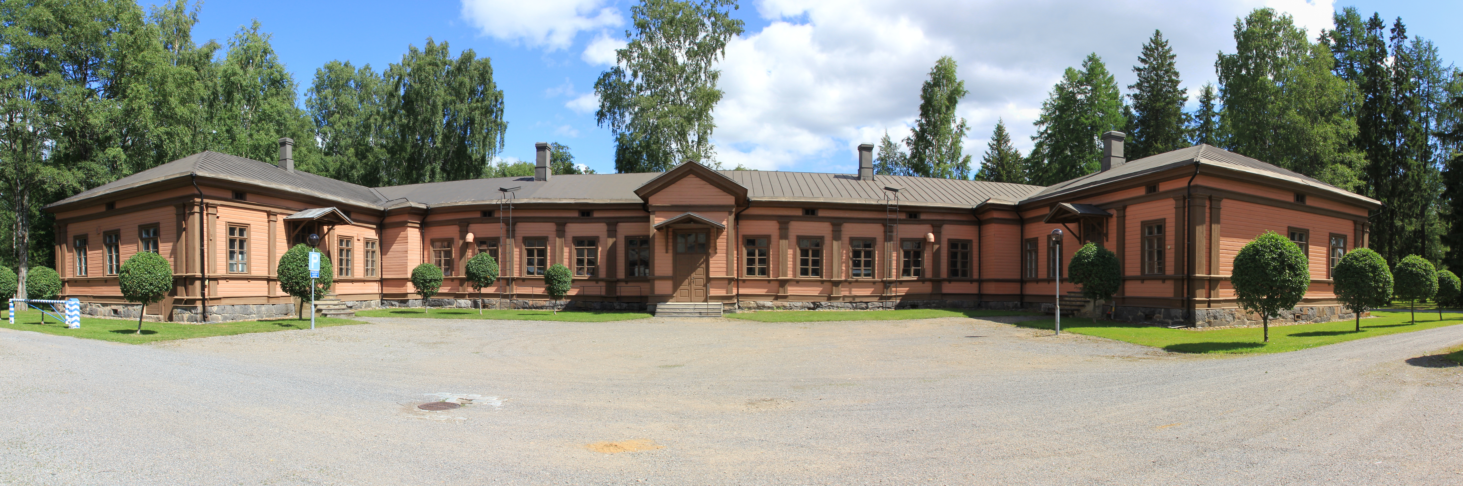 Mikkeli old garrison building, now used by the Infantry museum.